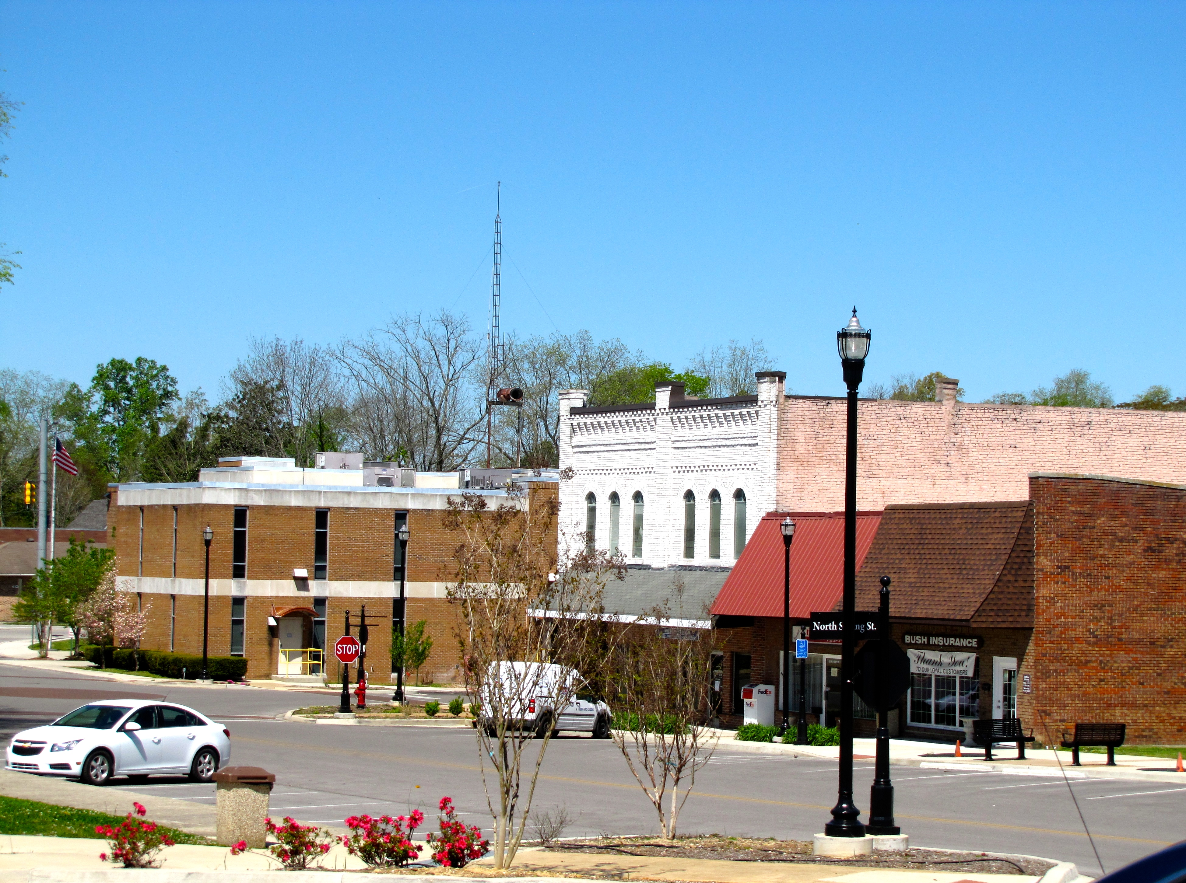 Buildings on the courthouse square (Fort Street) in Manchester, Tennessee, United States.